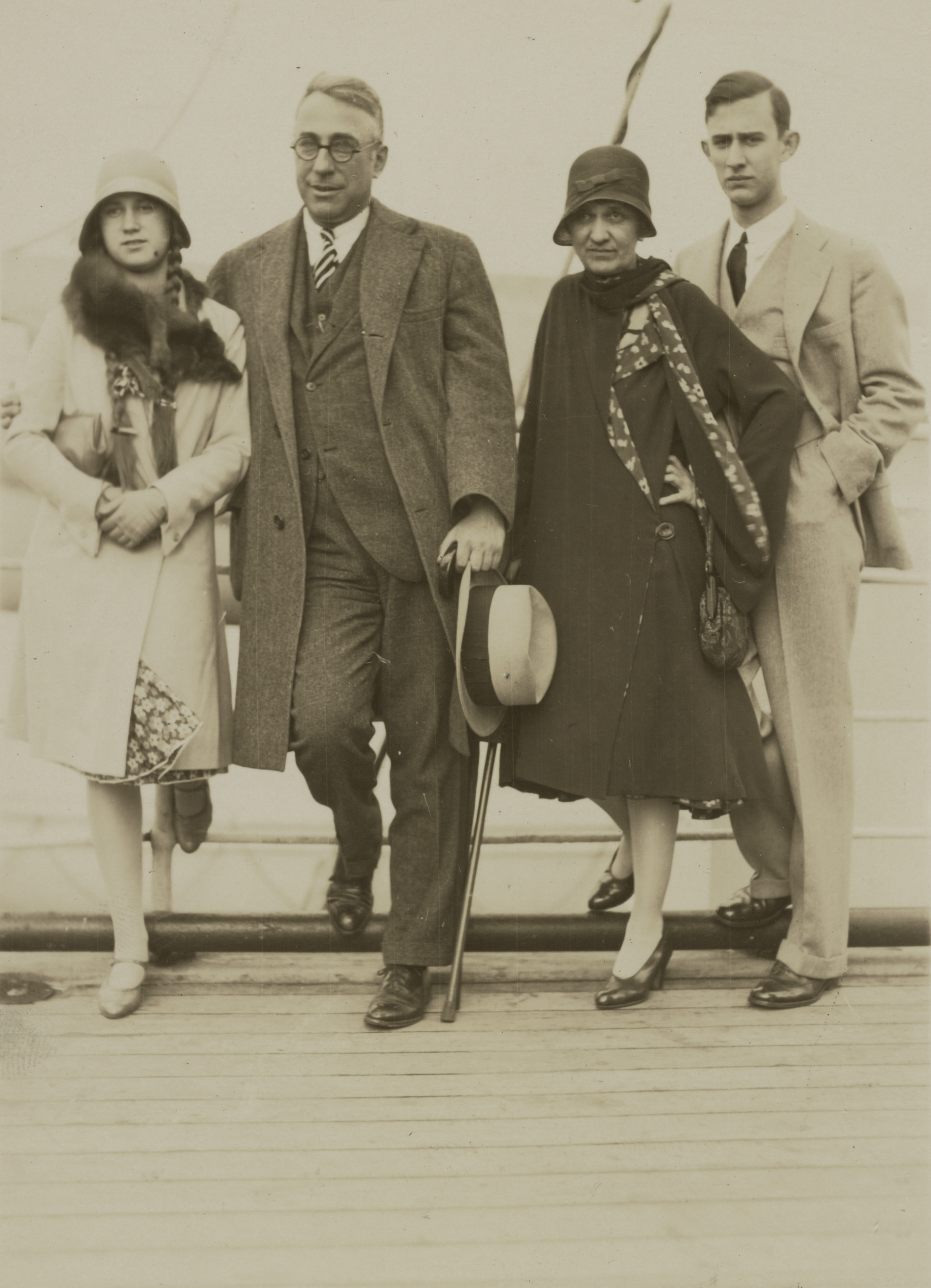 Photograph shows John Erskine with daughter, Anna Erskine Crouse, wife, Pauline Ives Erskine, and son, Graham Erskine.